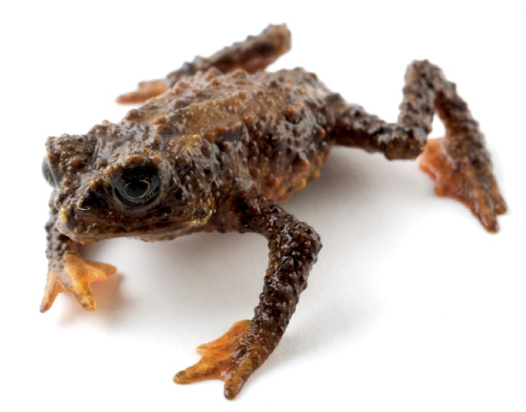 Osornophryne simpsoni in life (male holotype, QCAZ 49774).